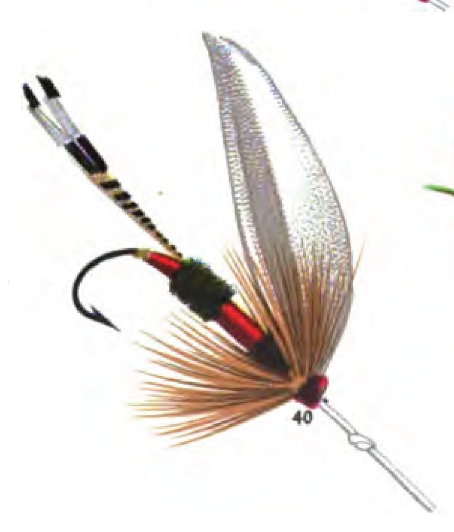 Drawing of Royal Coachman Wet Fly from Favorite Flies and Their Histories, Mary Orvis Marbury, 1892